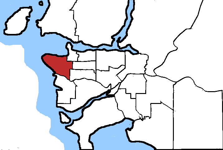 Map of the Vancouver Quadra electoral district. Based on Earl Andrew's maps, created by SimonP.